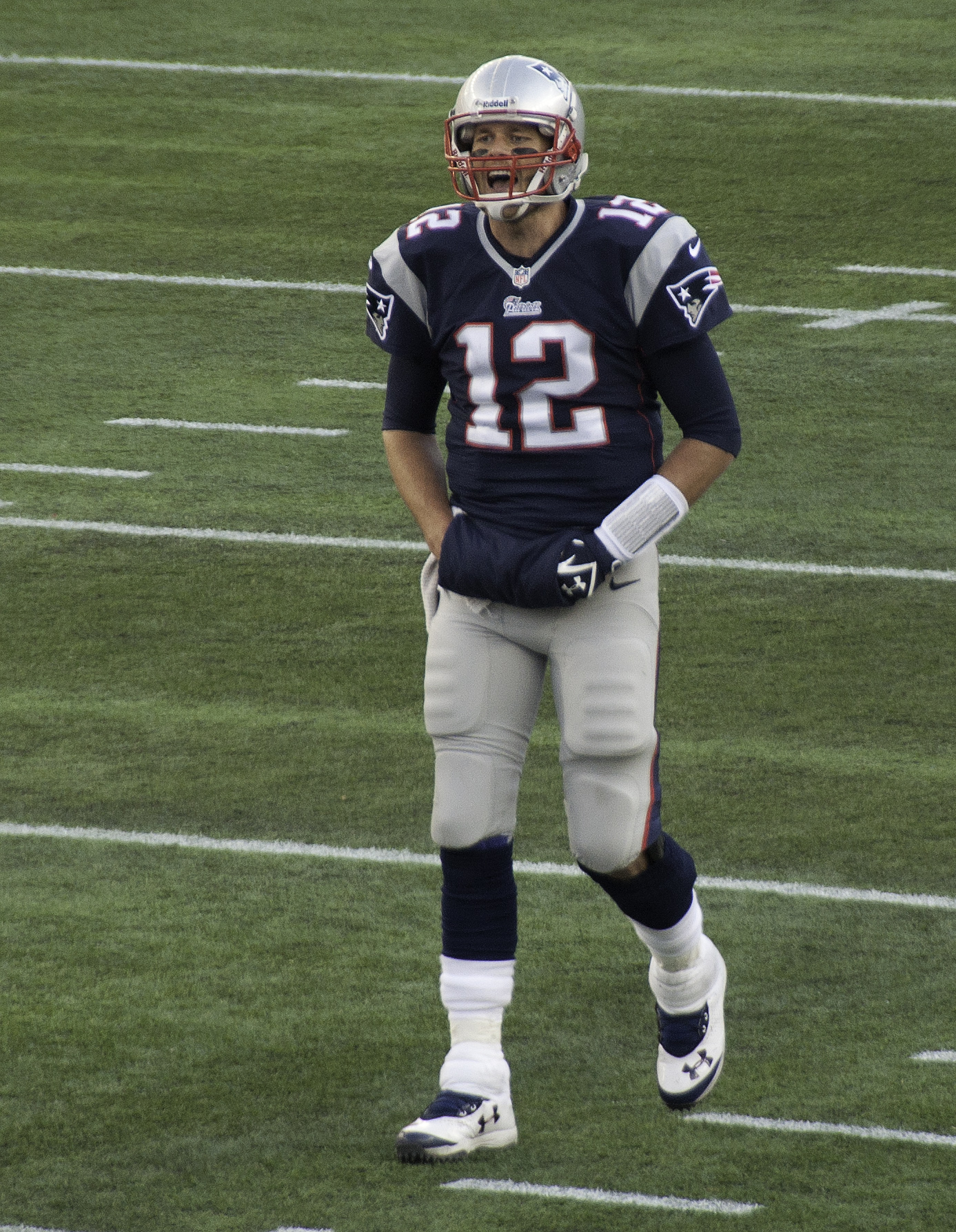 NE Patriots vs. Miami Dolphins, Gillette Stadium, Foxboro MA 2013.